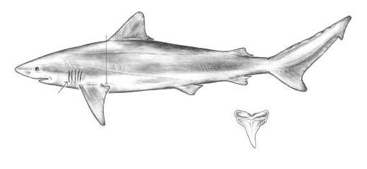 Finetooth shark (Carcharhinus isodon), from Grace, M. (2001). "Field Guide to Requiem Sharks (Elasmobranchiomorphi: Carcharhinidae) of the Western North Atlantic". NOAA Technical Report NMFS 153.